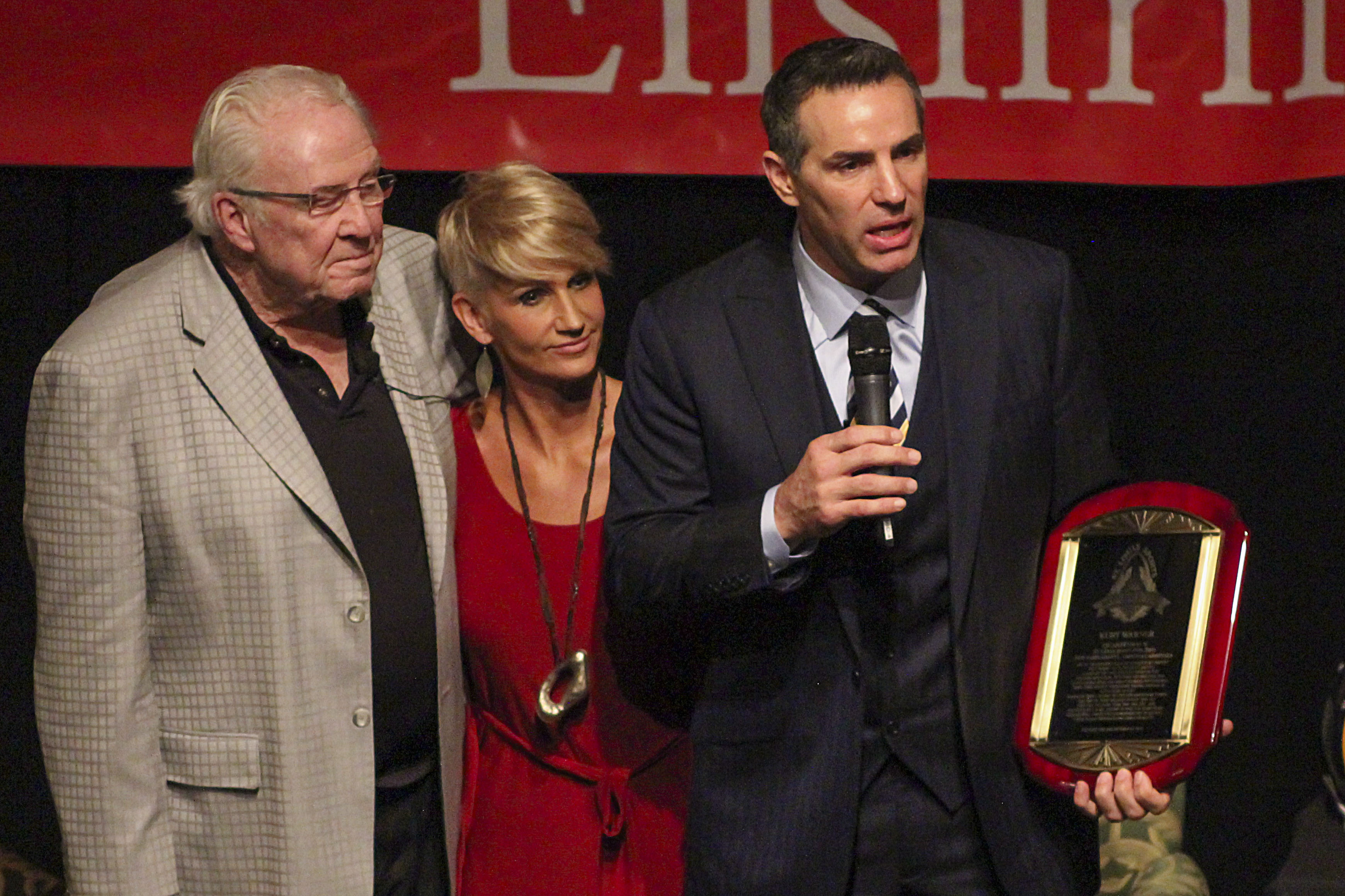 Kurt Warner inducted into the St.Louis Sports hall of fame.